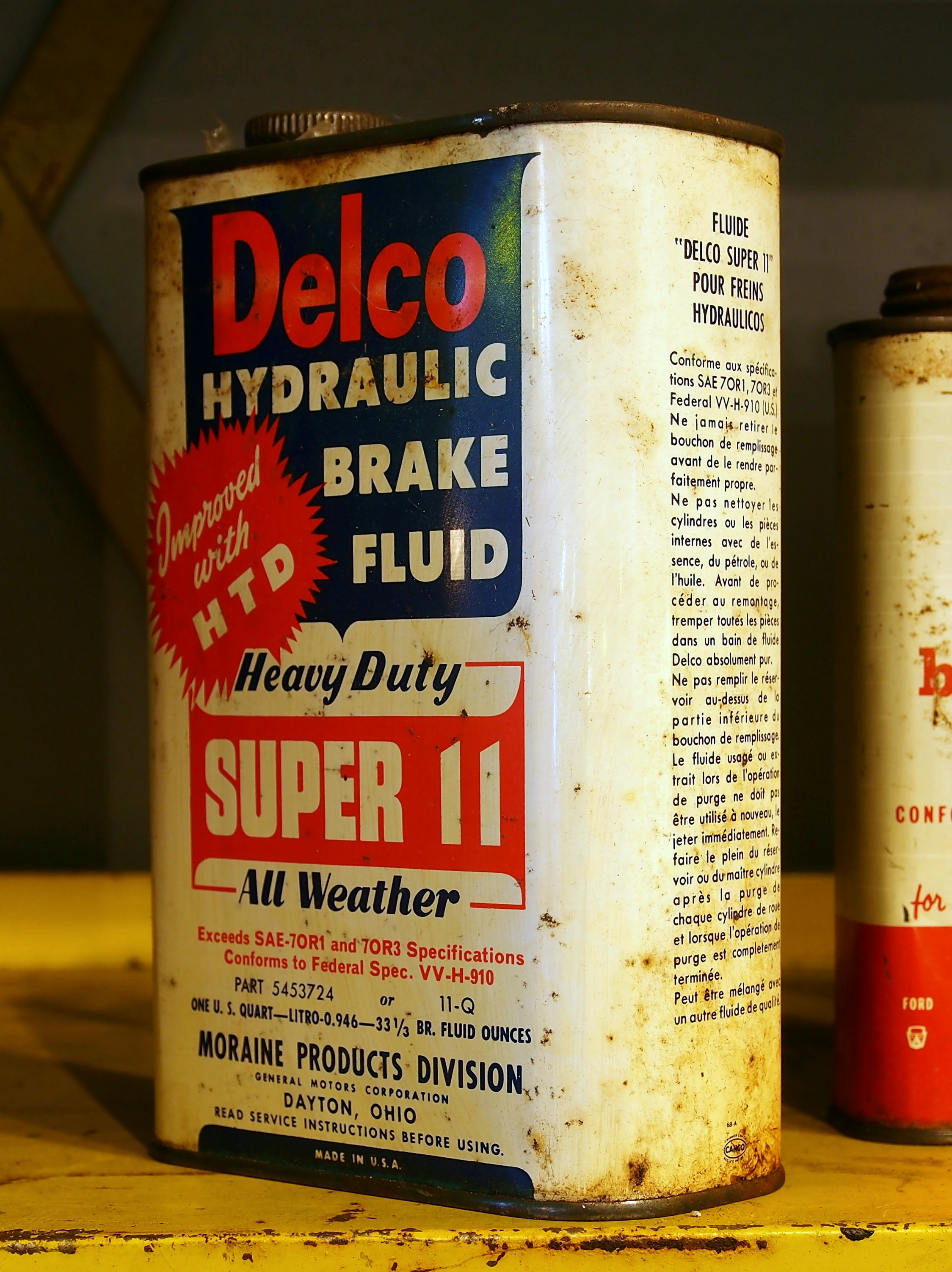 Old product photographed in the museum Terug in de Tijd, Horn, The Netherlands.